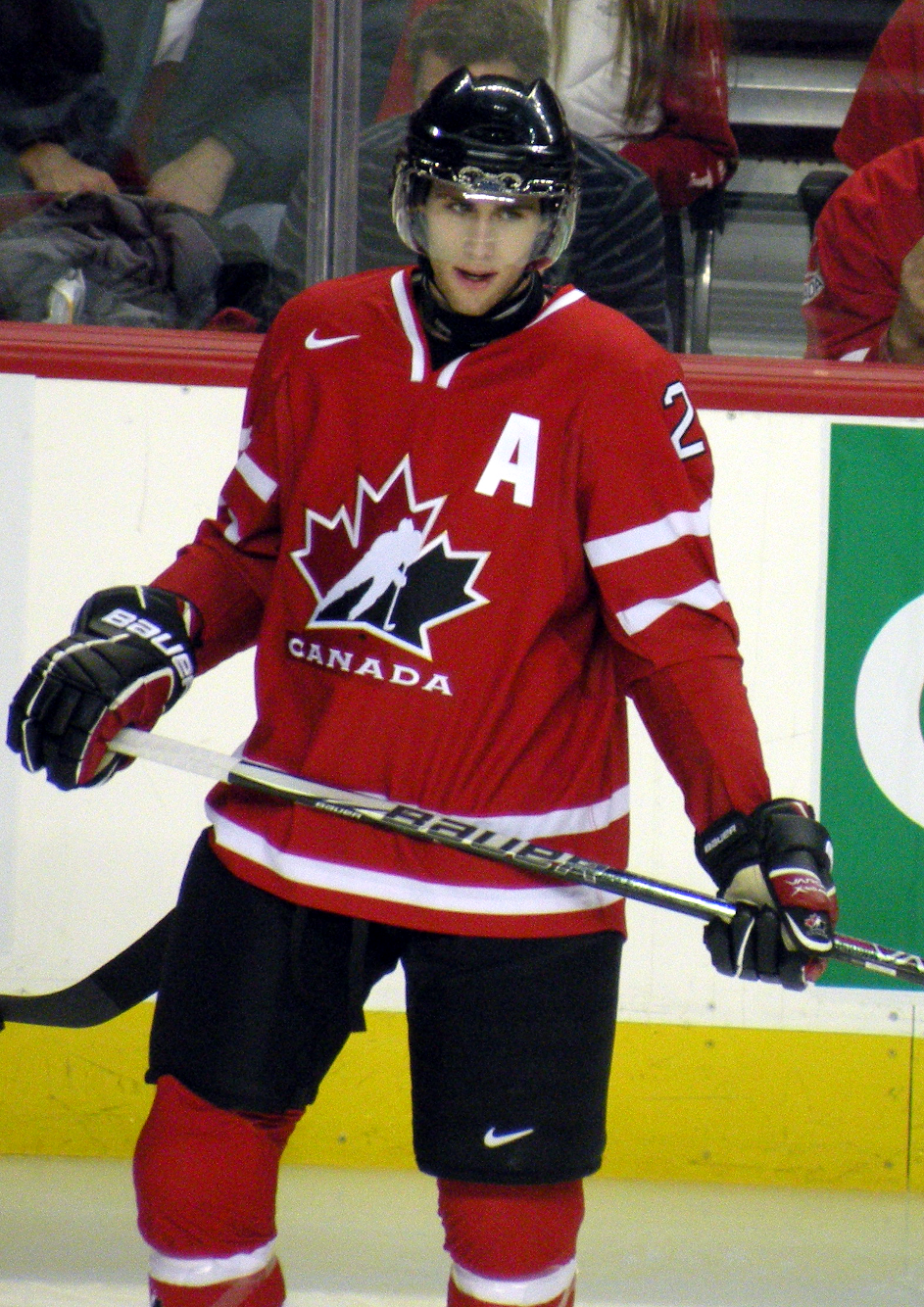 Canadian forward Quinton Howden prior to a semi-final game against Team Russia at the 2012 World Junior Hockey Championships at Calgary, Alberta, Canada.